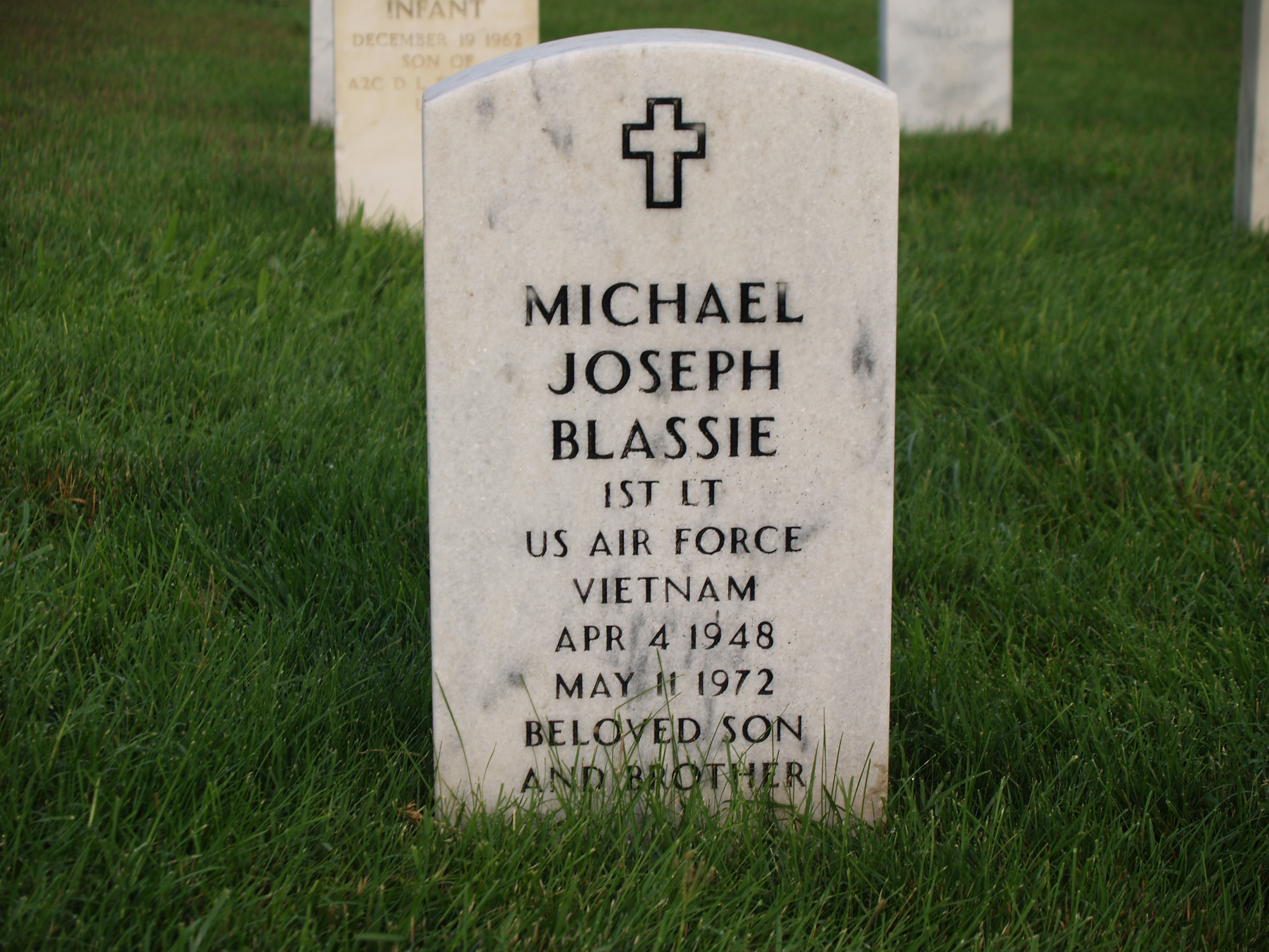 Grave of 1Lt Michael Joseph Blassie, Site 1, Section 85, Jefferson Barracks National Cemetery, St. Louis, MO. Lt. Blassie's remains were originally included in the Tomb of the Unknown Soldier in Arlington National Cemetery. Once identified through the use of DNA testing, the remains were removed and brought to Jefferson Barracks National Cemetery.